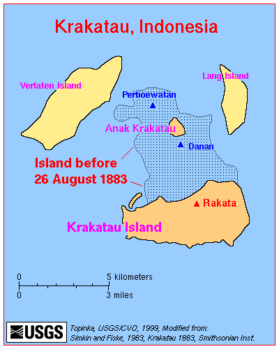 Map of Krakatau